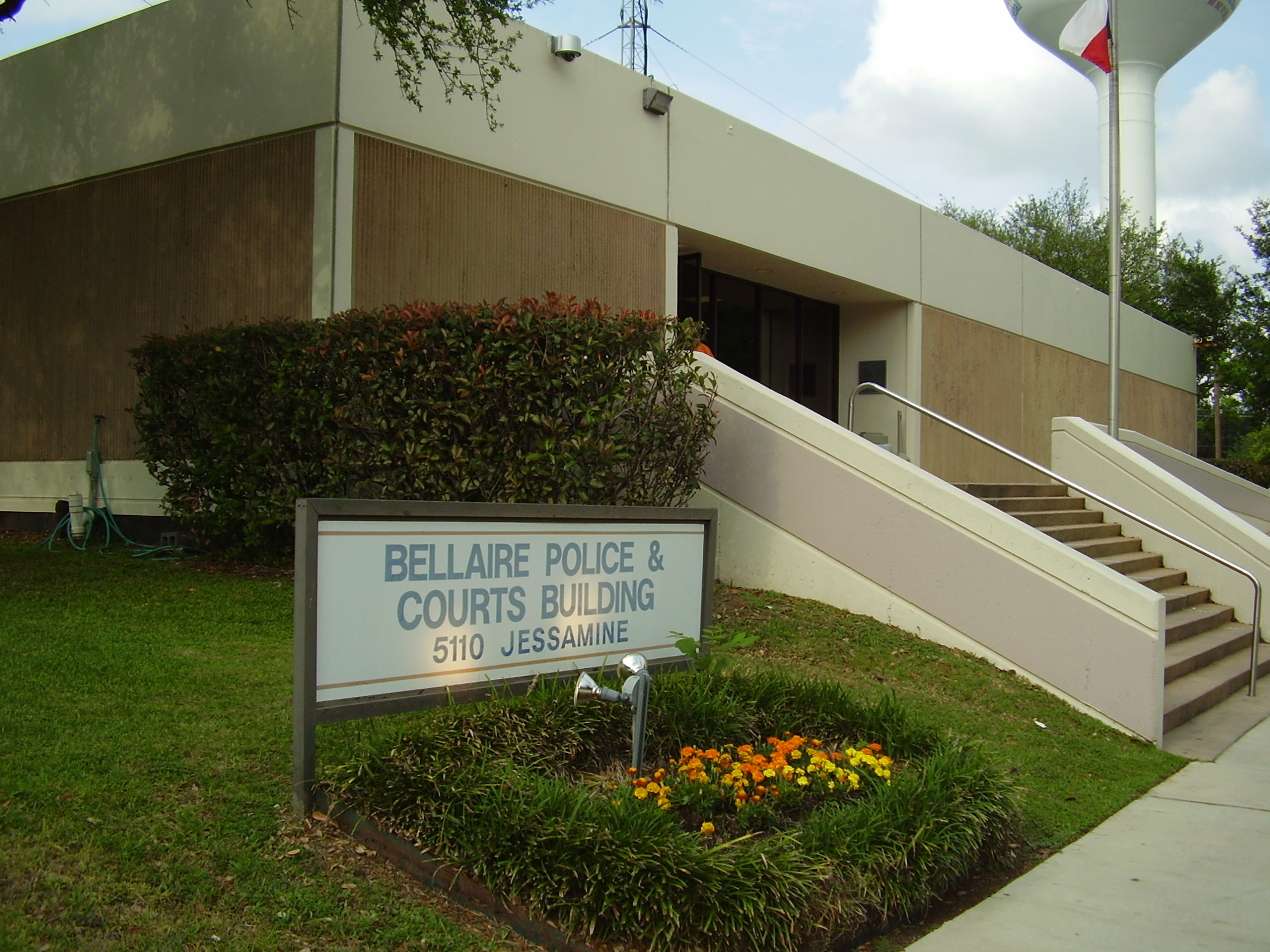 Bellaire Police and Court Building